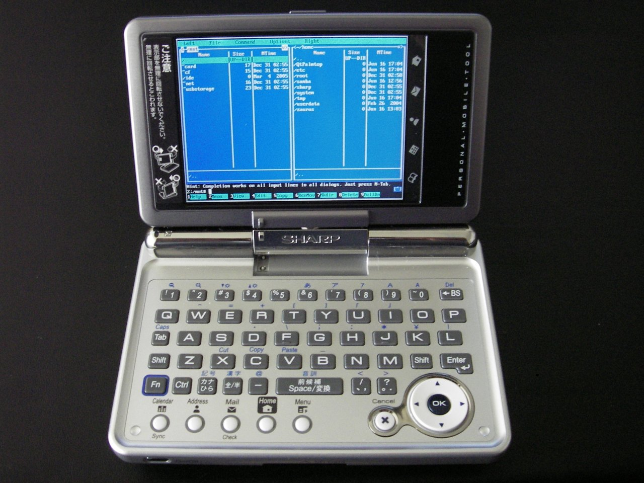 Sharp Zaurus SL-C1000, displaying Midnight Commander. To the left of the screen you can see the original warning sticker.